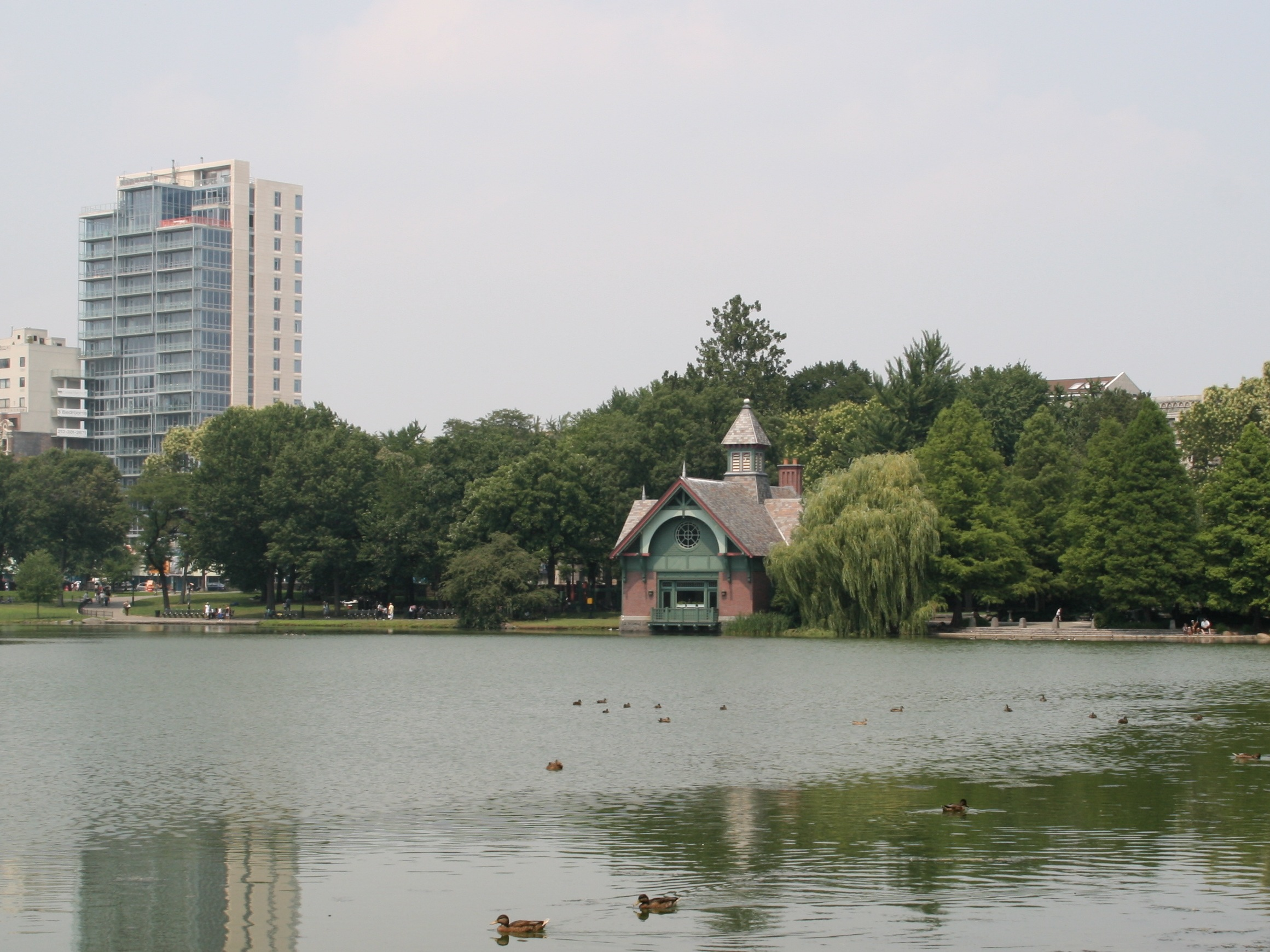 The Harlem Meer in Central Park, New York, New York. The Dana Discovery Center is shown on the far side of the meer. Taken by F. Cleary August 4th, 2007. Should go in article: Harlem Meer, Central Park.